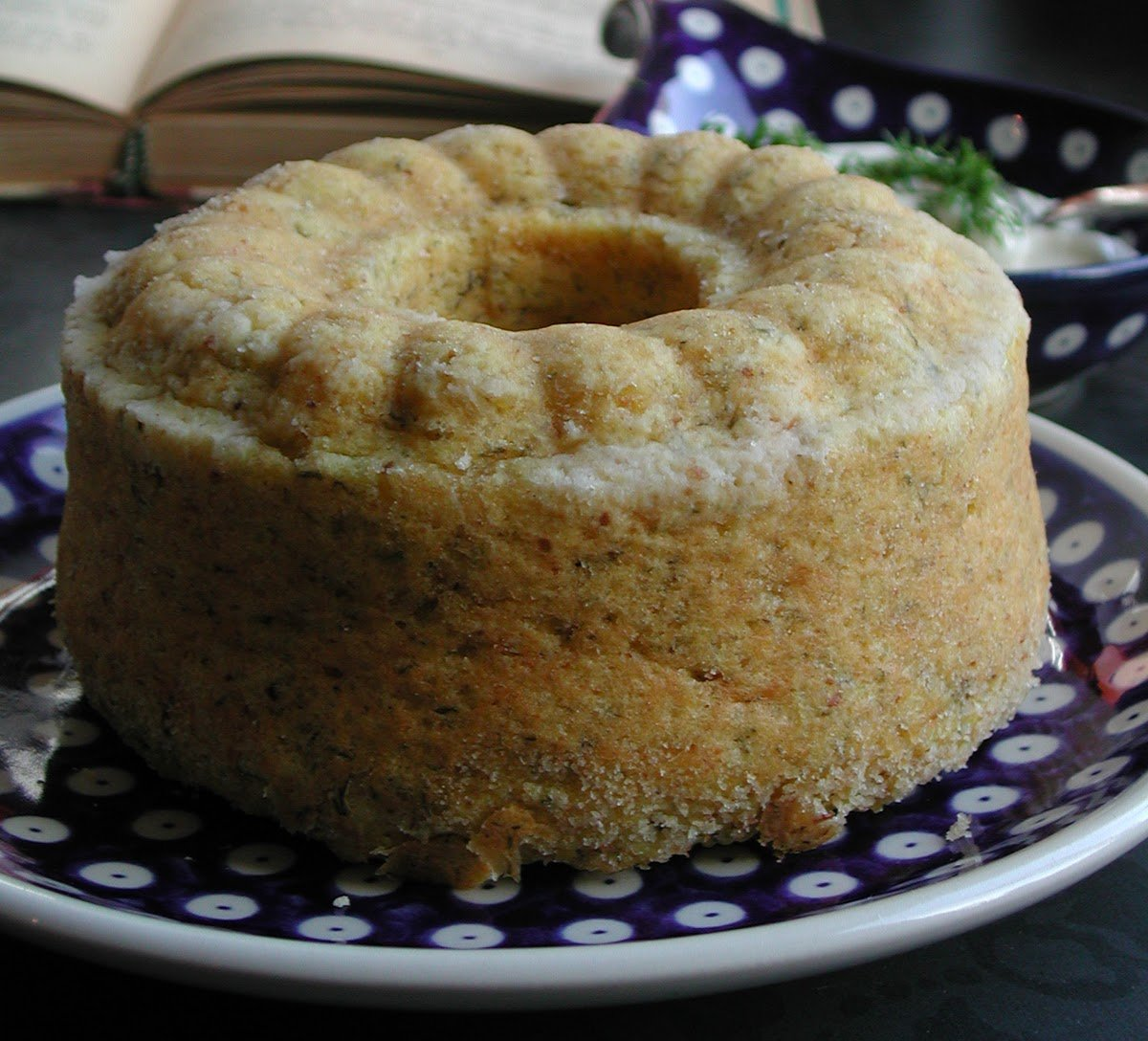 Budyń made of millet groats. See also the same dish before steaming.